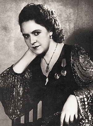 Larysa Aleksandroŭskaja, Biełaruś